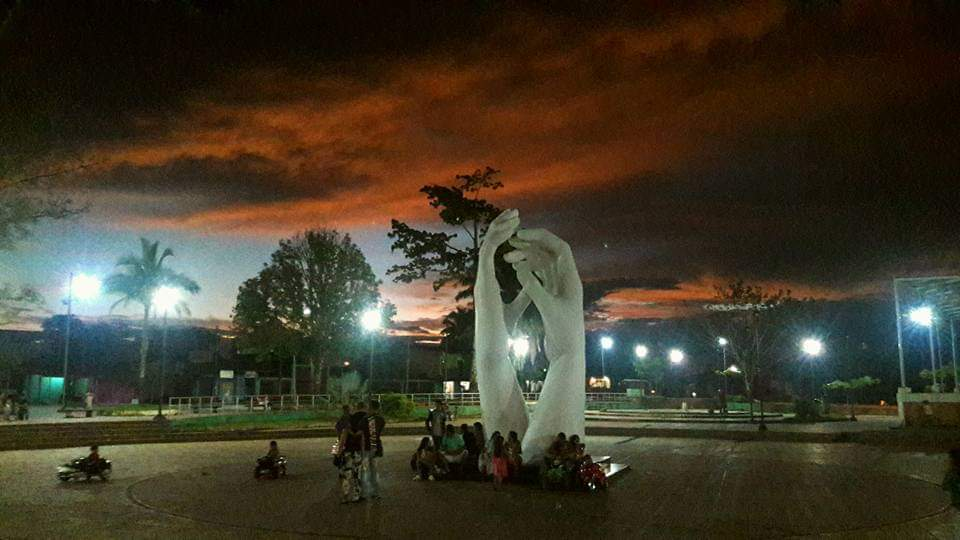 Central Park Orito